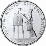 1 litas coin - Vilnius-European Capital of Culture (2009)